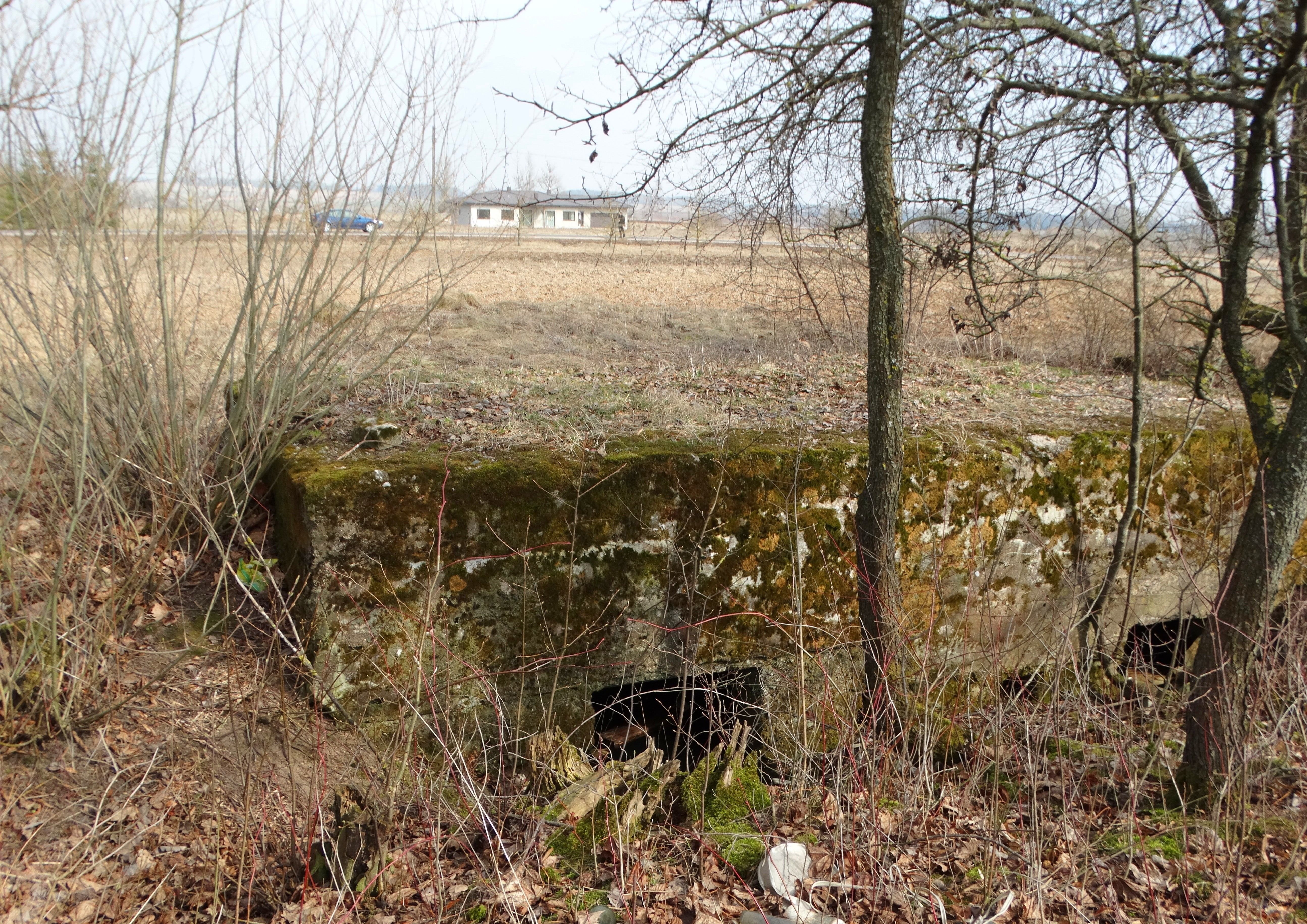 WWI bunker, Varluva, Kaunas district, Lithuania